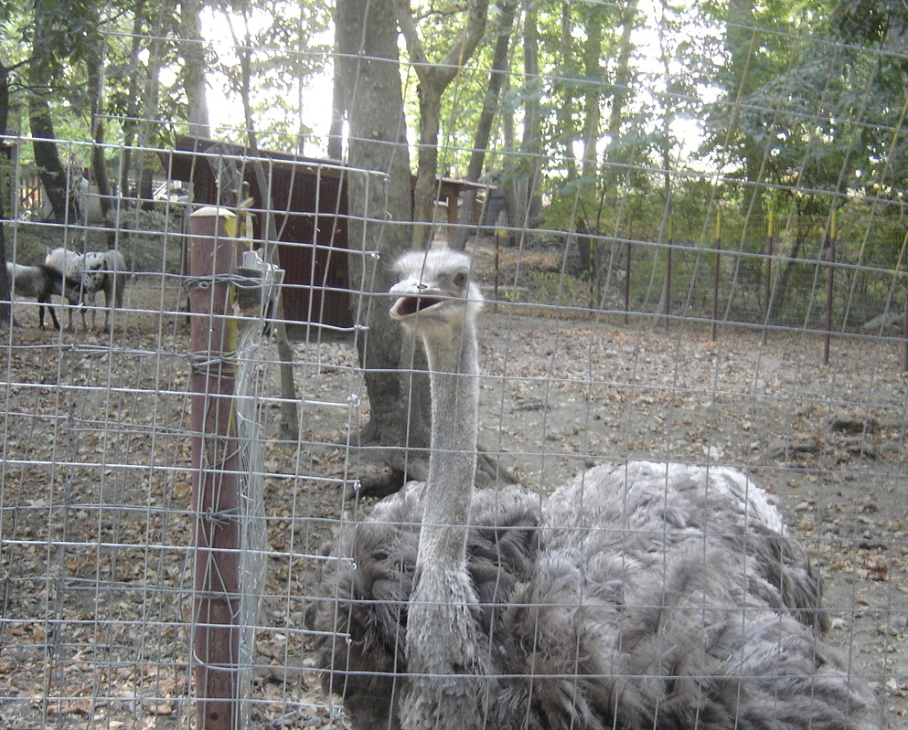 A caged ostrich